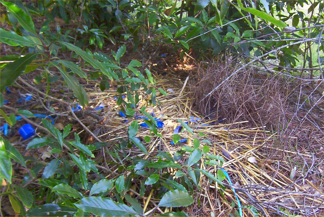 Description: A picture taken of a Bowerbird bower (not technically a nest). Source: Own work Date Taken: October 8th 2006 Author: Dfrg.msc Uploader: Dfrg.msc Permission: Given (see Below)